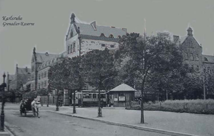 Karlsruhe. Barracks of 1st Baden Life Grenadiers in (built for this regiment in the 1890s). Black and white photograph.